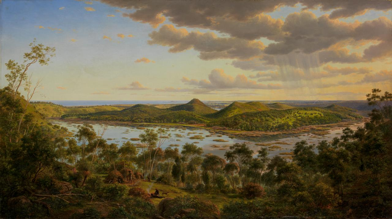 Painting of 'Tower Hill' crater and lake. An inactive volcano on the south-West coast of Victoria, Australia. Painted by Eugene von Guérard between Wednesday 15 August, 1855 and Friday 5 October, 1855 (52 days). The work shows, in detail, the volcano crater lake with inset scoria cones, surrounded by native vegetation.